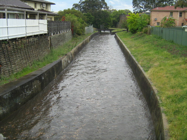 Iron Cove Creek looking upstream from the Church St bridge after a thunderstorm. Taken: October 12, 2007.